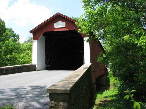 Photo of the Van Sant Covered Bridge located in Solebury Township, near New Hope in Bucks County, Pennsylvania.